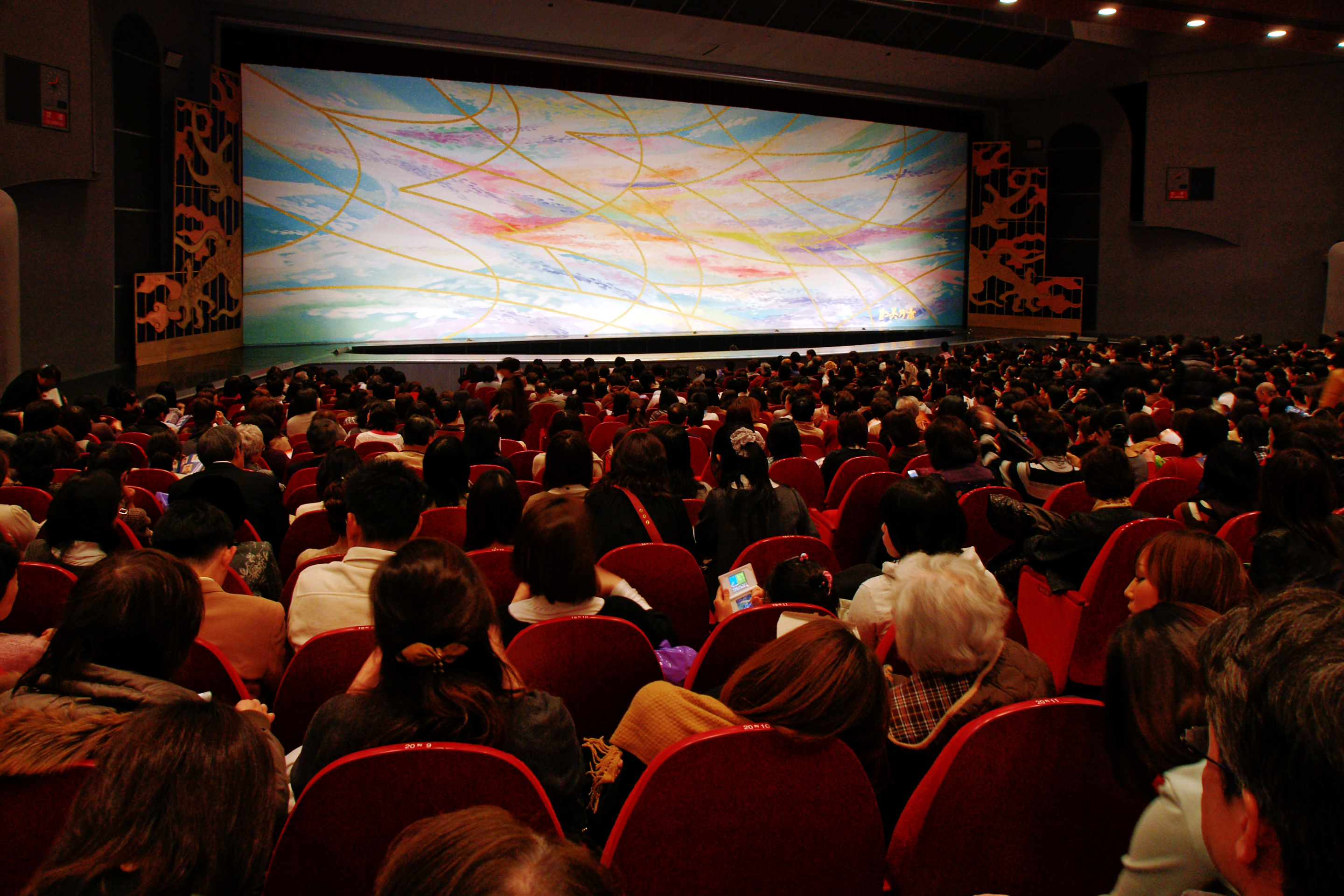 Takarazuka Grand Theater in Takarazuka, Hyogo prefecture, Japan